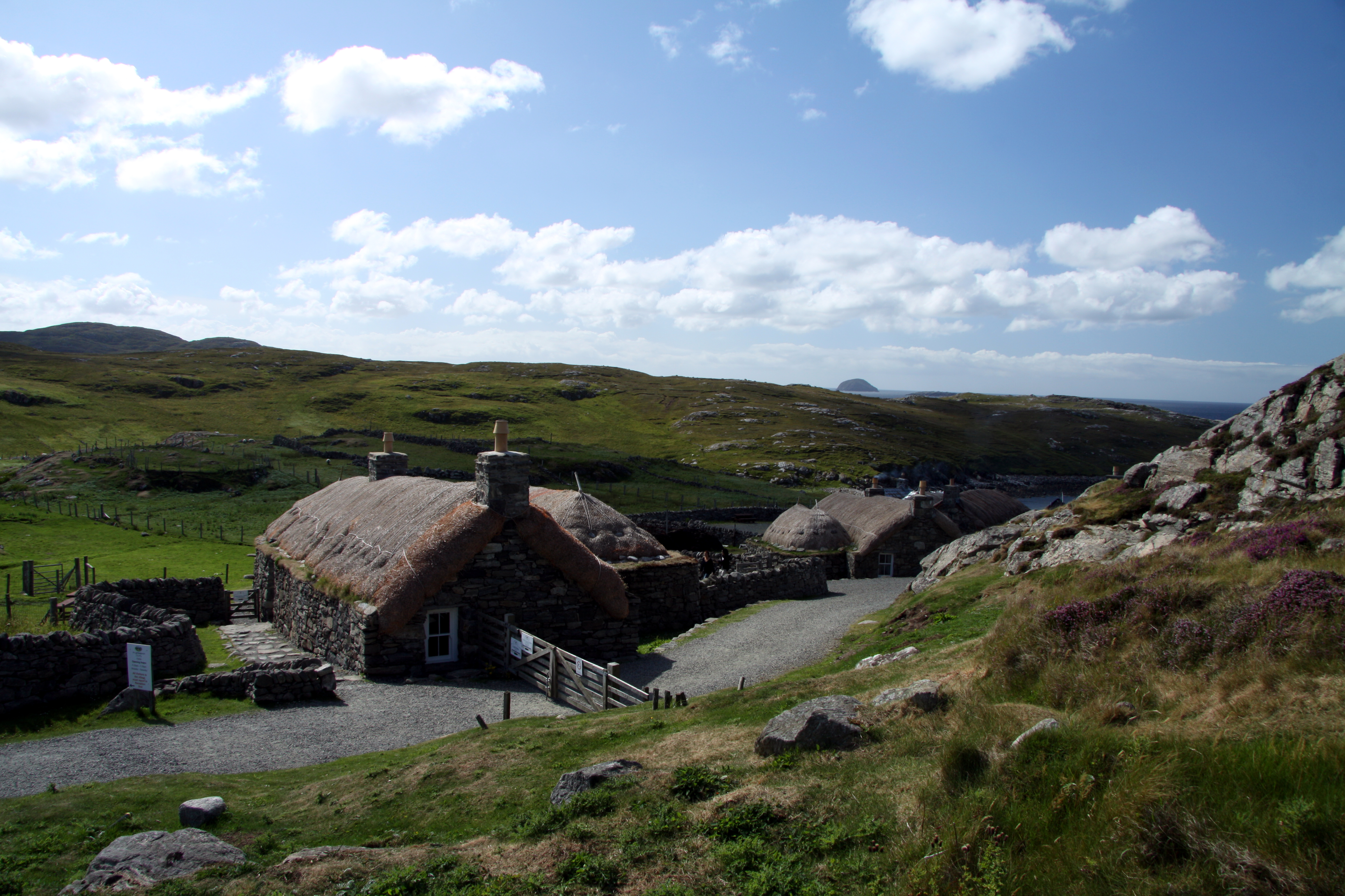 Carloway village, Isle of Lewis, Outher Hebrids, Scotland